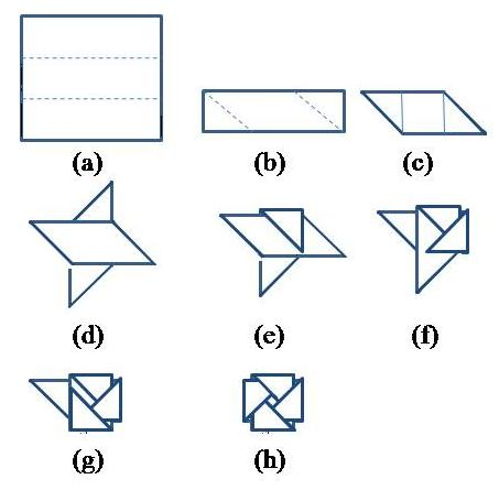 This picture illustrates one way to fold a takji from square paper.